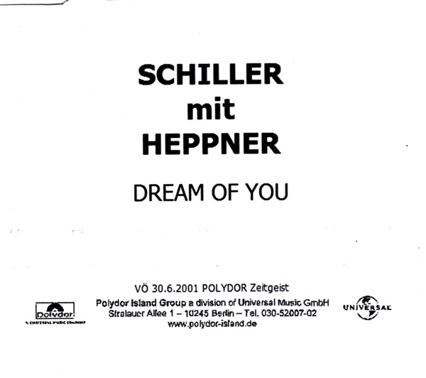 „Dream of You“ Promo-Single-Cover by Schiller mit Heppner.